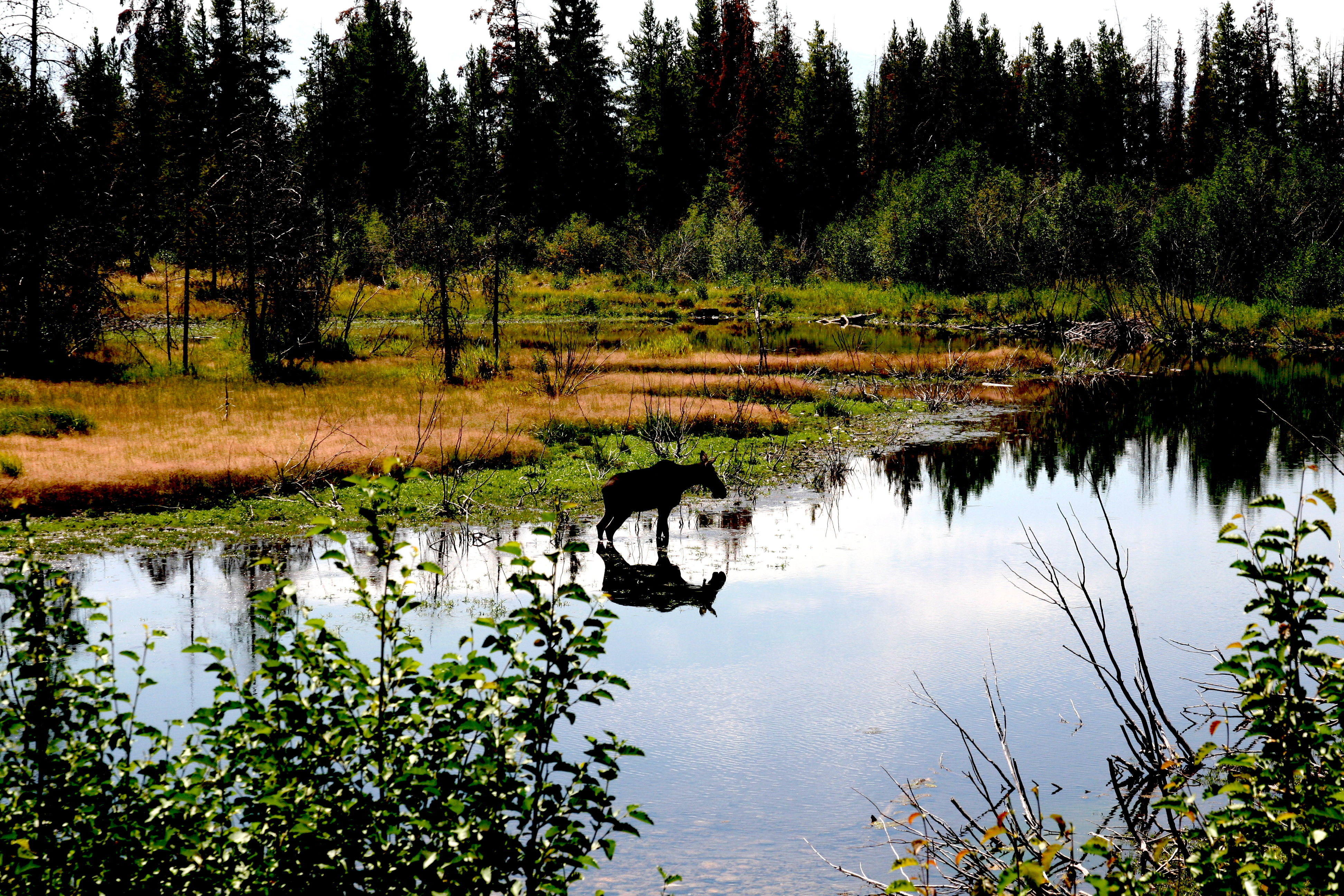 A female moose with reflection in Grand Teton National Park